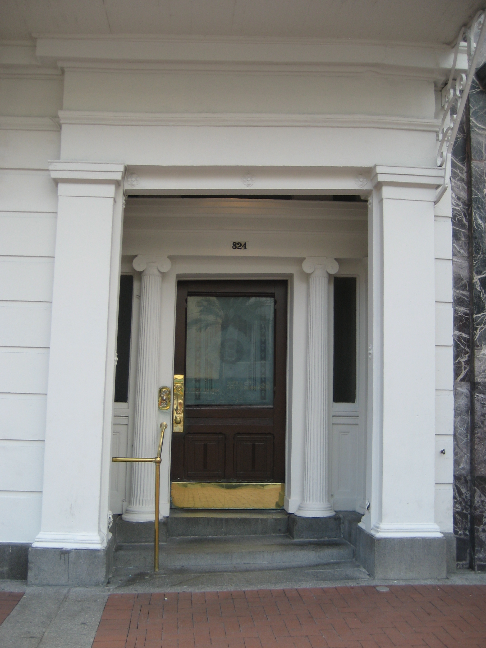 Canal Street, New Orleans Central Business District